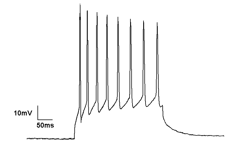 Original author Bilz0r: (A whole-cell current-clamp recording I made of a Substantia Nigra Pars Reticulata neuron. A small amount of negative current is tonically injected to pause tonic firing, and then approximately 200pA of positive current is injected